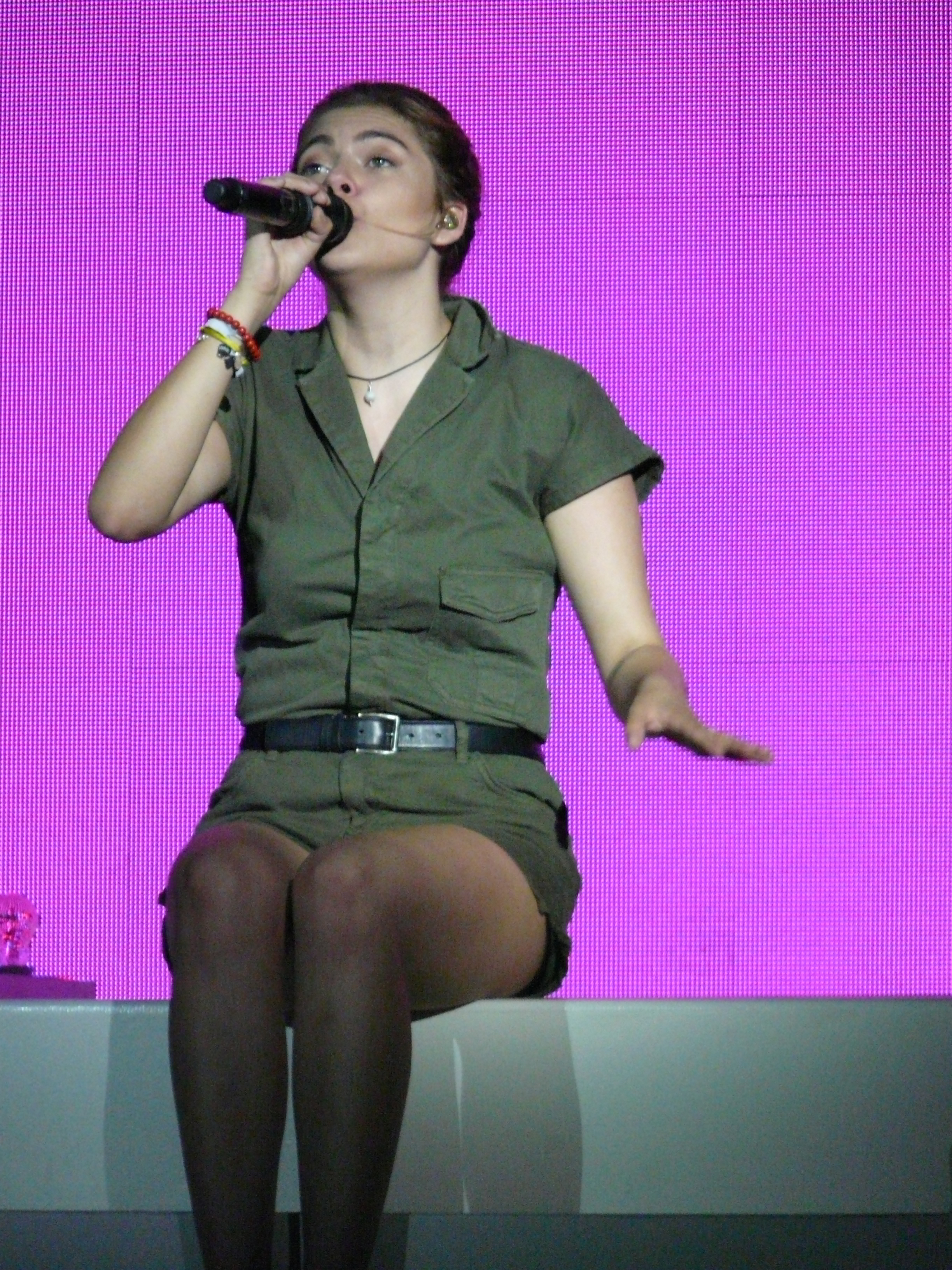 Louane Emera at concert in Theatre Antique, Vienne, France, 20.07.2016